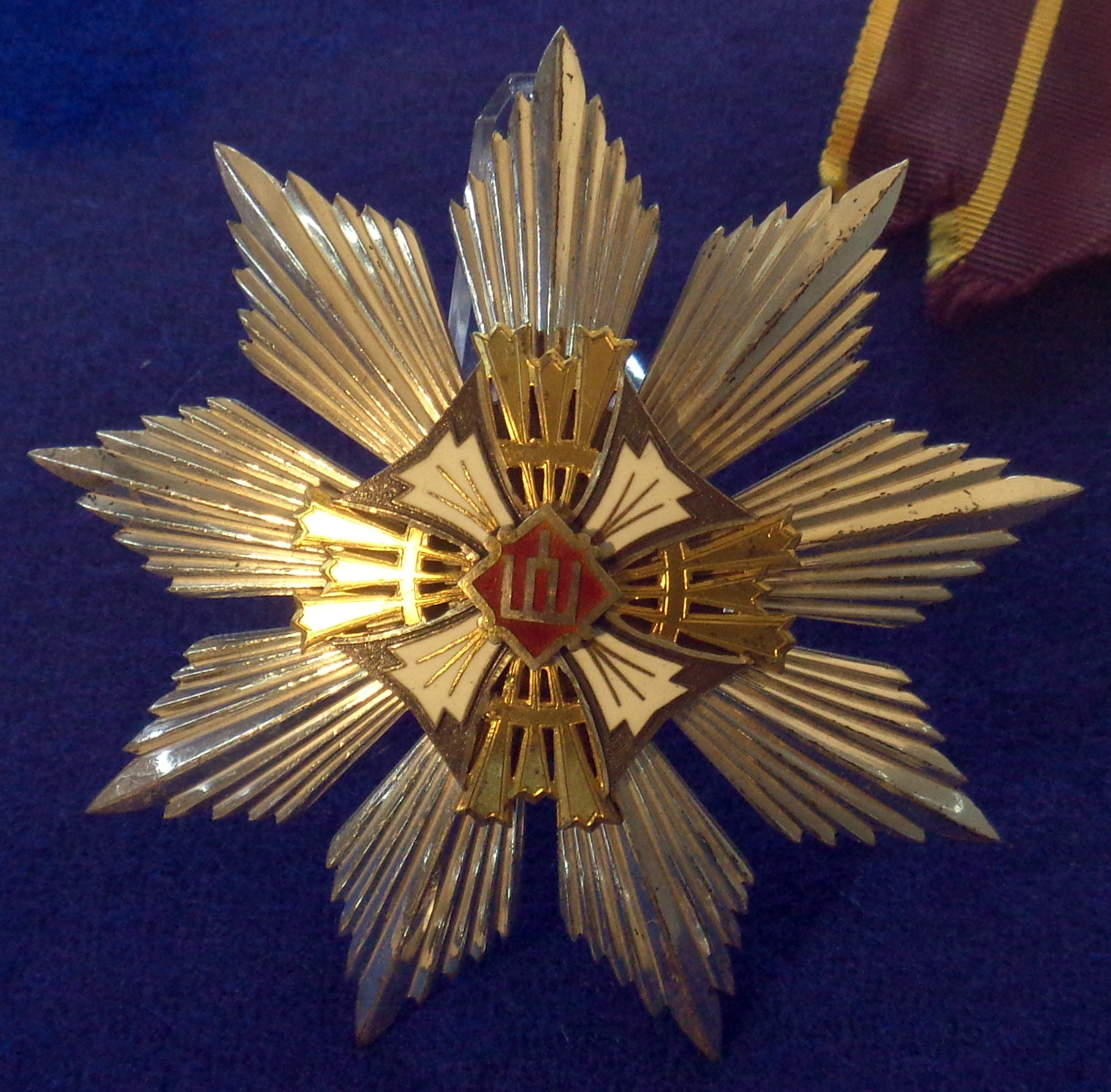 Order of the Lithuanian Grand Duke Gediminas, star of Grand Cross, before 1940. Lithuania. The exhibition of the Tallinn Museum of Orders of Knighthood, Estonia.